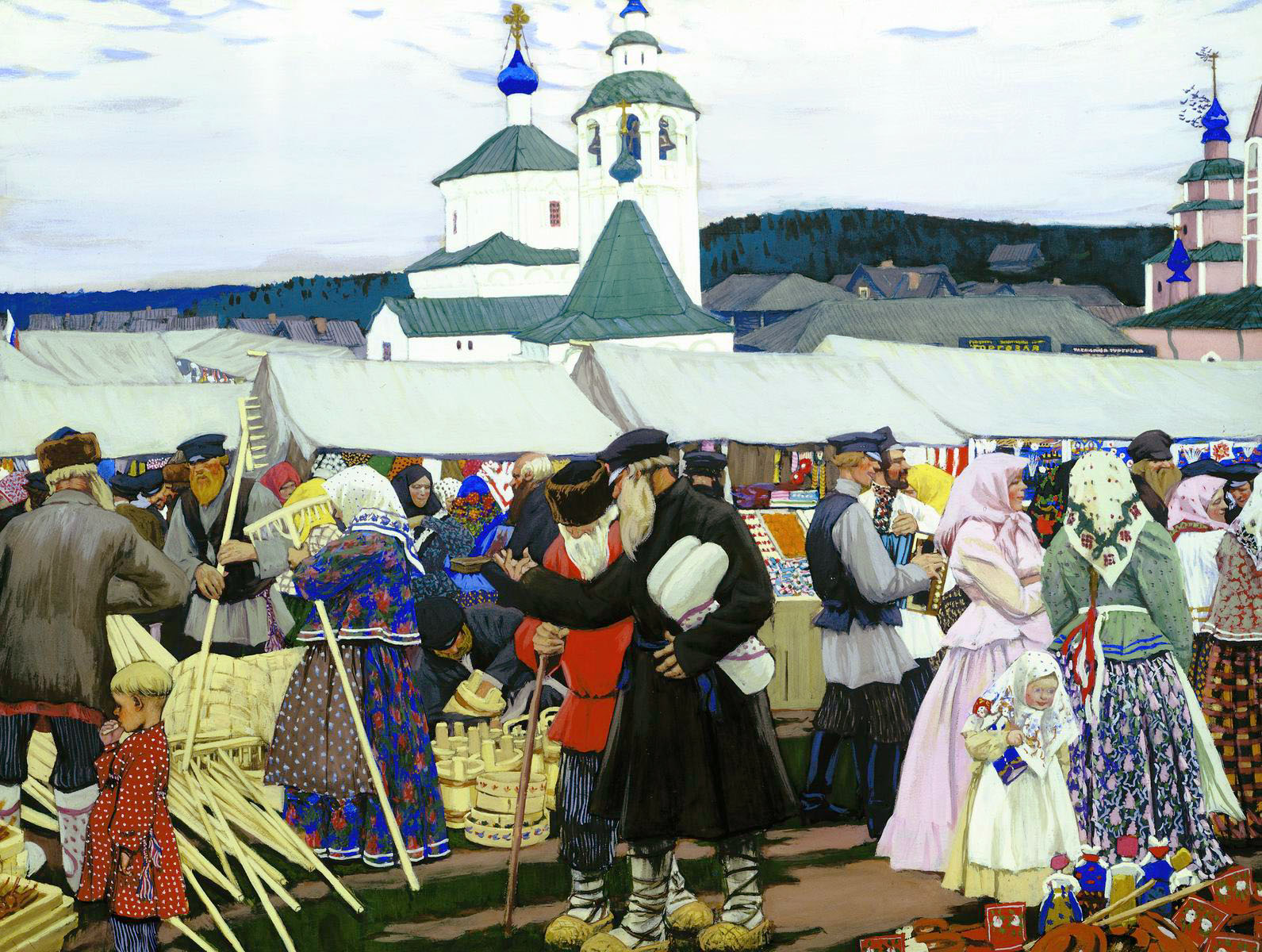 Boris Kustodiev's painting "Fair" (1906).